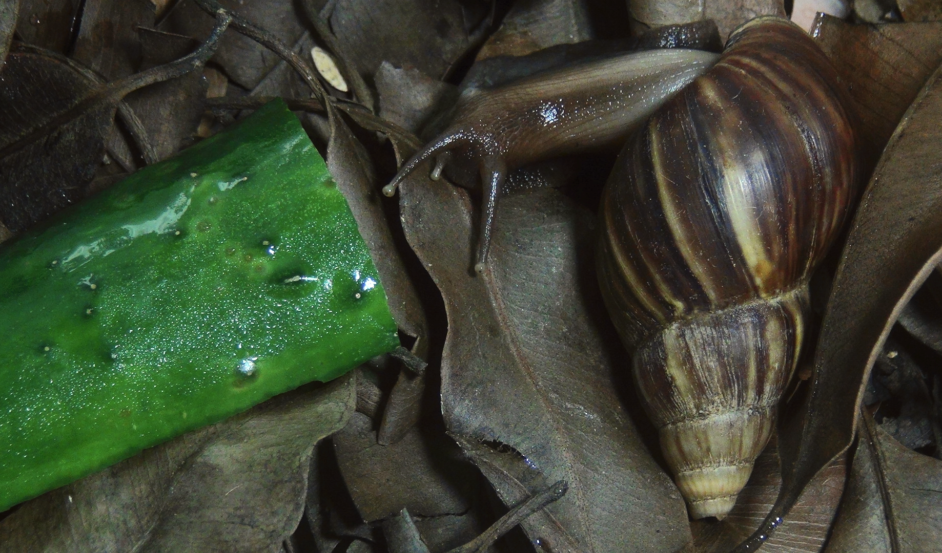 A domesticated Giant African Land Snail (Lissachatina fulica) making its way to a cucumber slice.